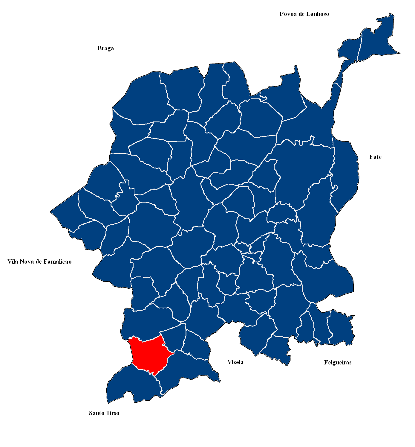 Map of Guardizela parish, Guimarães Municipality, Portugal